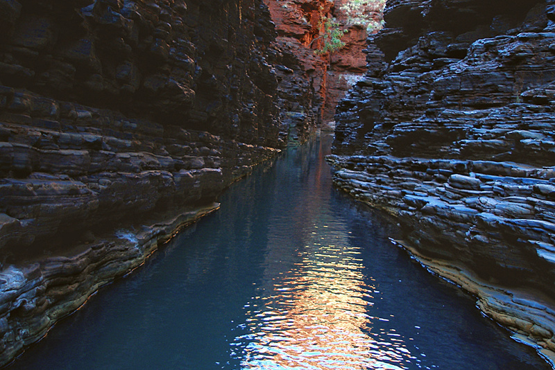 Karijini National Park, Australia, Hancock Gorge